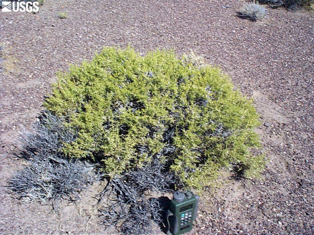 Greasewood shrub sarcobatus baileyi